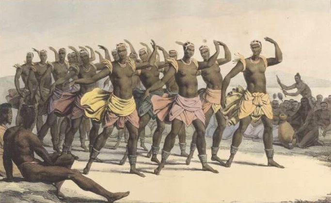 A hand-coloured lithograph depicting female dancers from the Sandwich Islands (now known as the Hawaiian Islands). It was based on an original work by Louis Choris, the artist aboard the Russian cruiser Rurick, which visited Hawai'i in 1816.